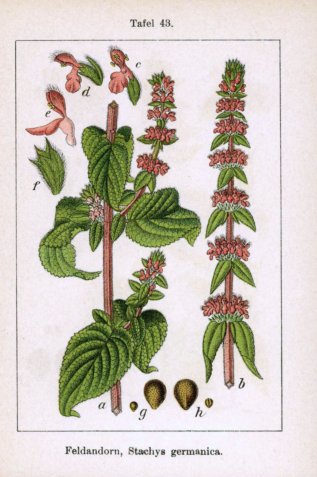 Stachys germanica L. Original Caption Feldandorn, Stachys germanica